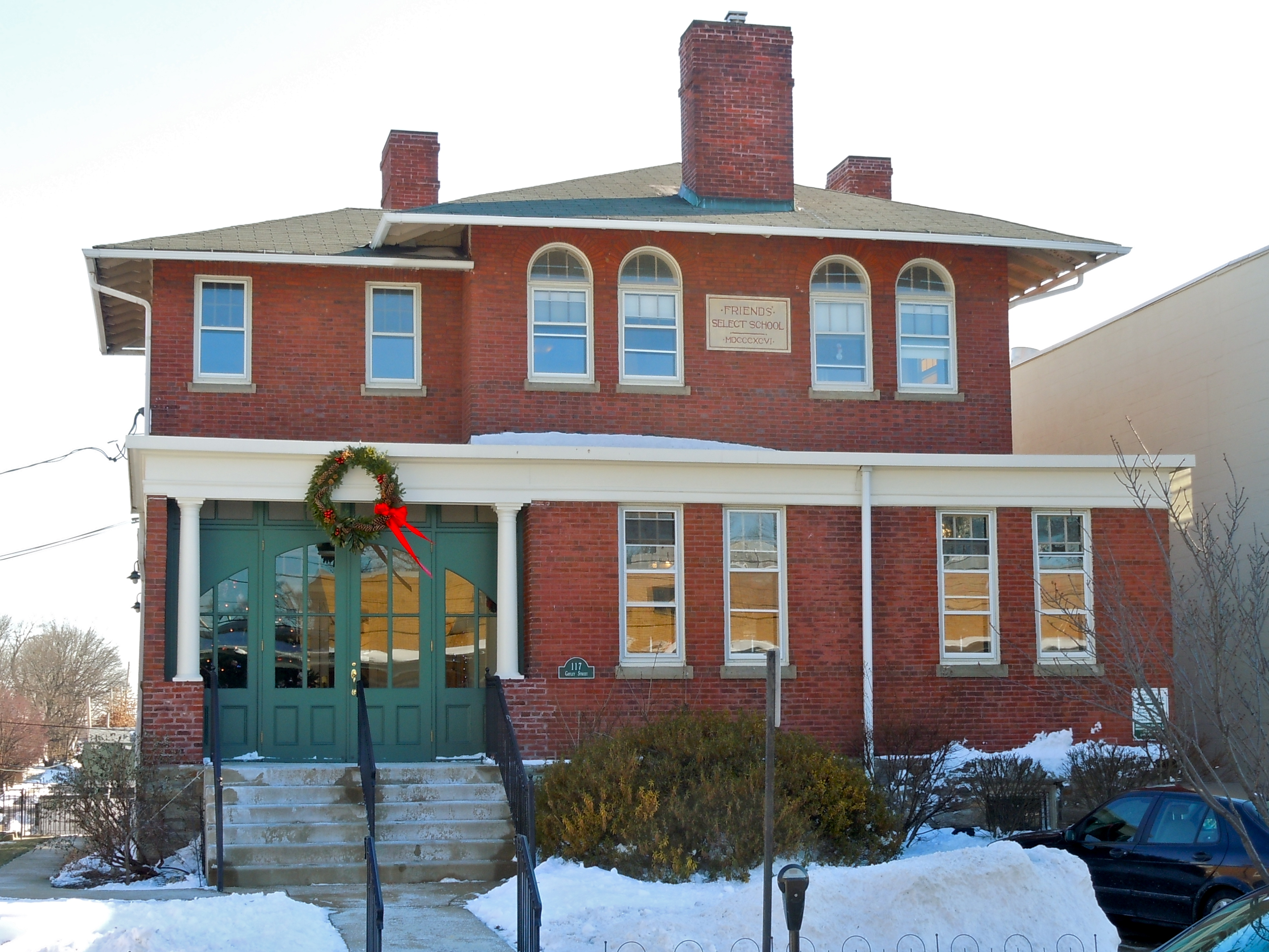 Old Friends Select School on Gayley Street in Media, Pennsylvania